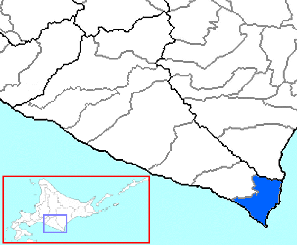 The location of Erimo in Hidaka Subprefecture, Hokkaido Prefecture, Japan.